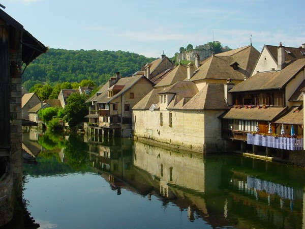 The Loue at Ornans